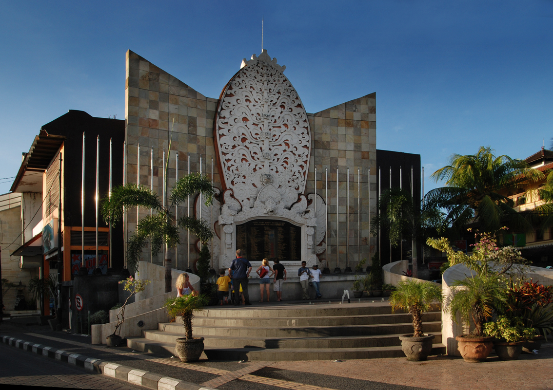 The spot where many lives were lost due to a terrorist bombing in 2002.